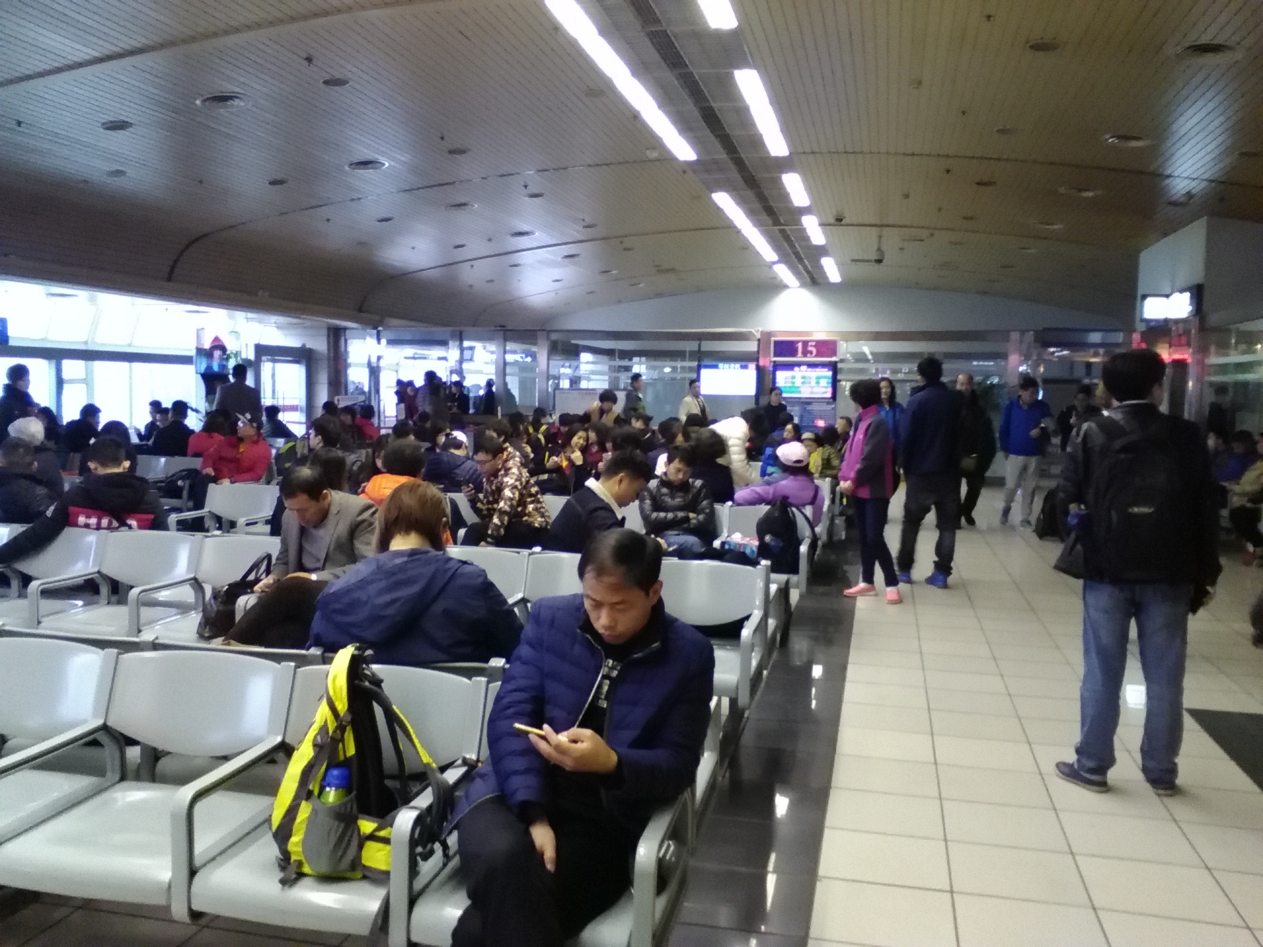 Waiting Room of Guilin Liangjiang International Airport, near Gate 13.